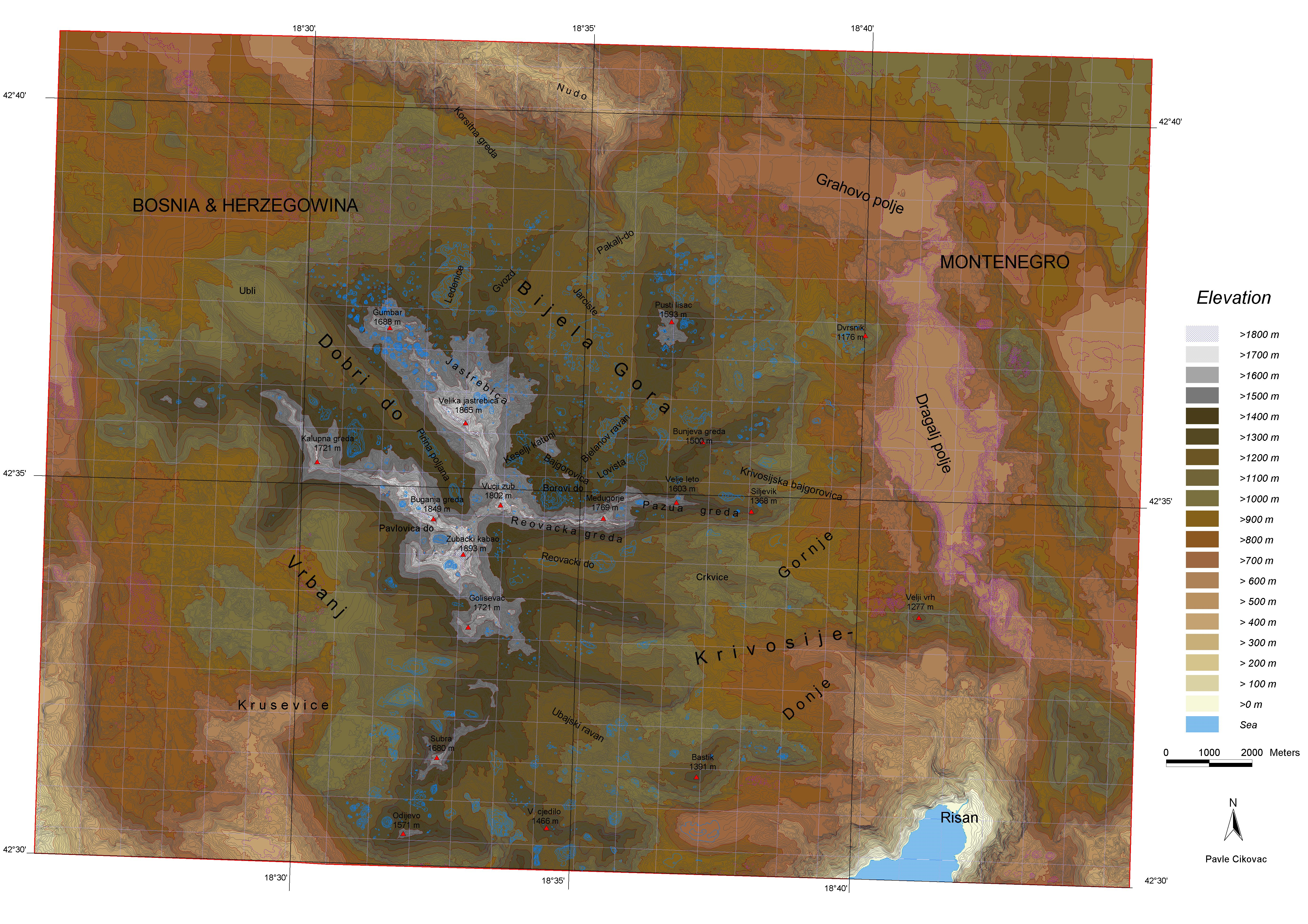 Topographic map Mt. Orjen leg P.Cikovac